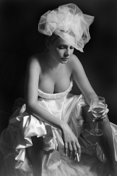 Bizarre Sadness of the Winners; model: Natália Bizoňová Kacinová (the winner of the Queen of the World 1997)